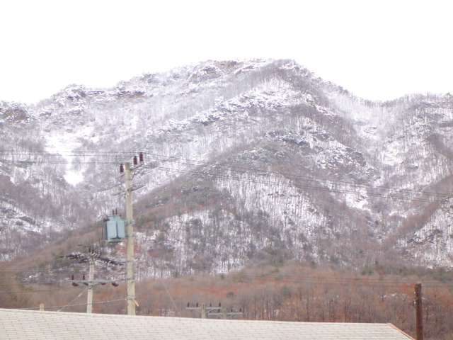 Soyosan as seen from Camp Casey